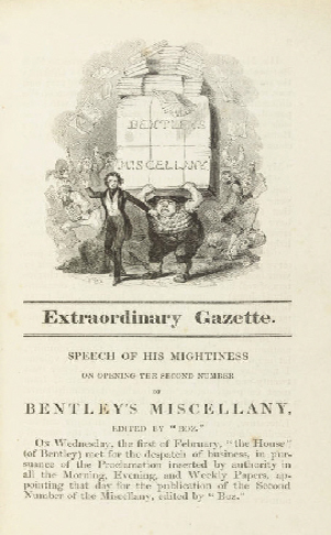 Cover of serial, "Bentley's Miscellany"